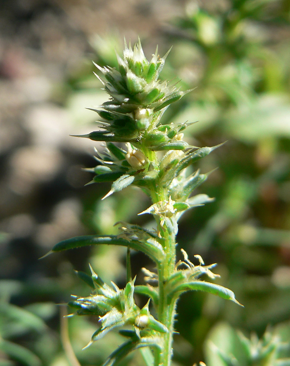 Kali tragus (Syn. Salsola tragus) near the junction of 157 and 158, Kyle Canyon, Spring Mountains, southern Nevada (elev. about 2100 m)